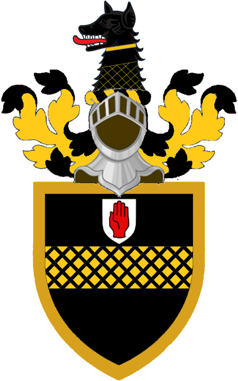 The armorial achievement of the Style baronets of Wateringbury